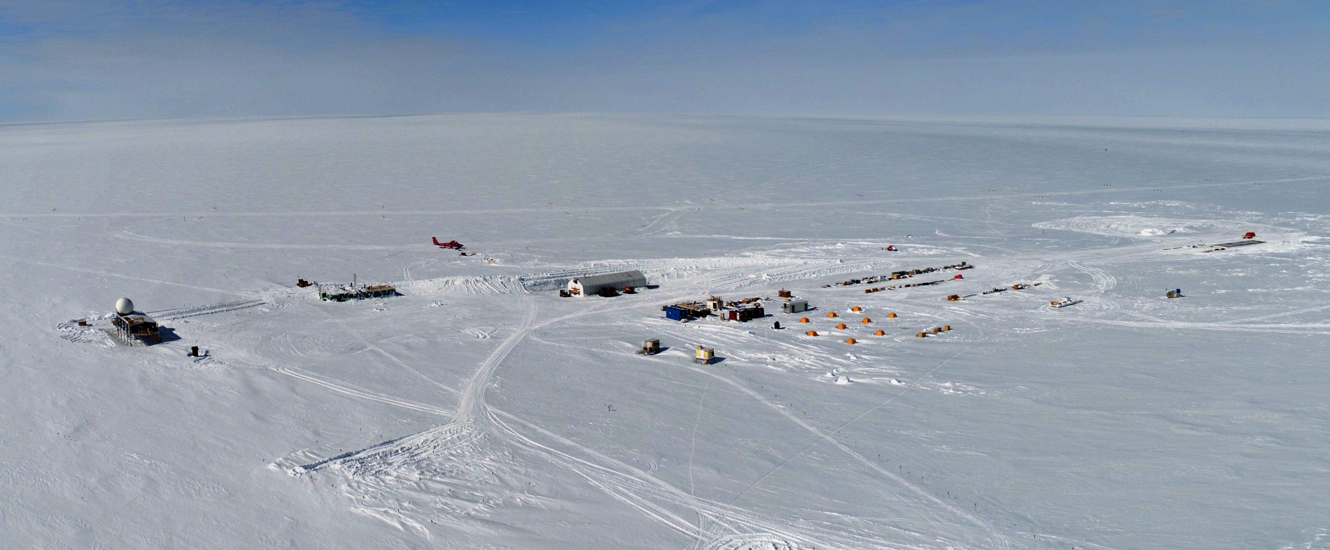 Aerial recording of Summit Camp (3208 m, Greenland)